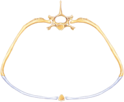 Thorax deformed by lung compromise (caudal view). Mild deformation